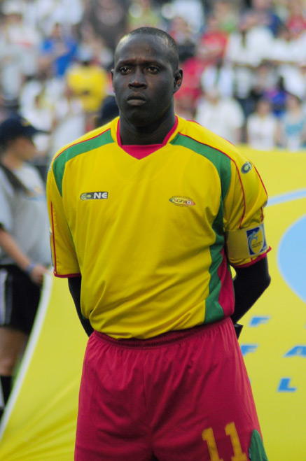 Photo of soccer player, Anthony Modeste.